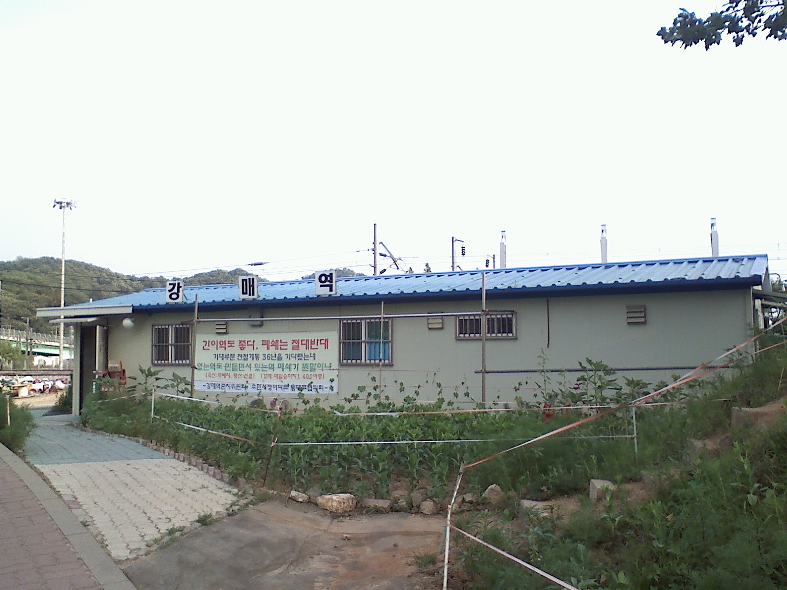 Gangmae station